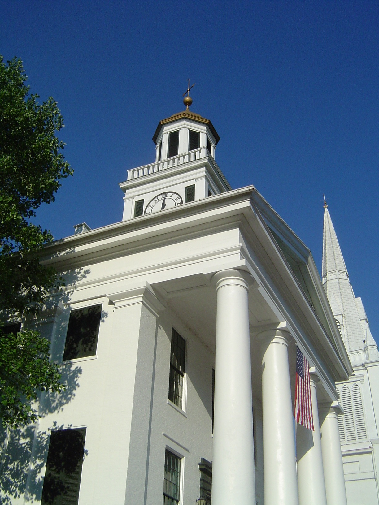 Mason County, Kentucky, Courthouse from